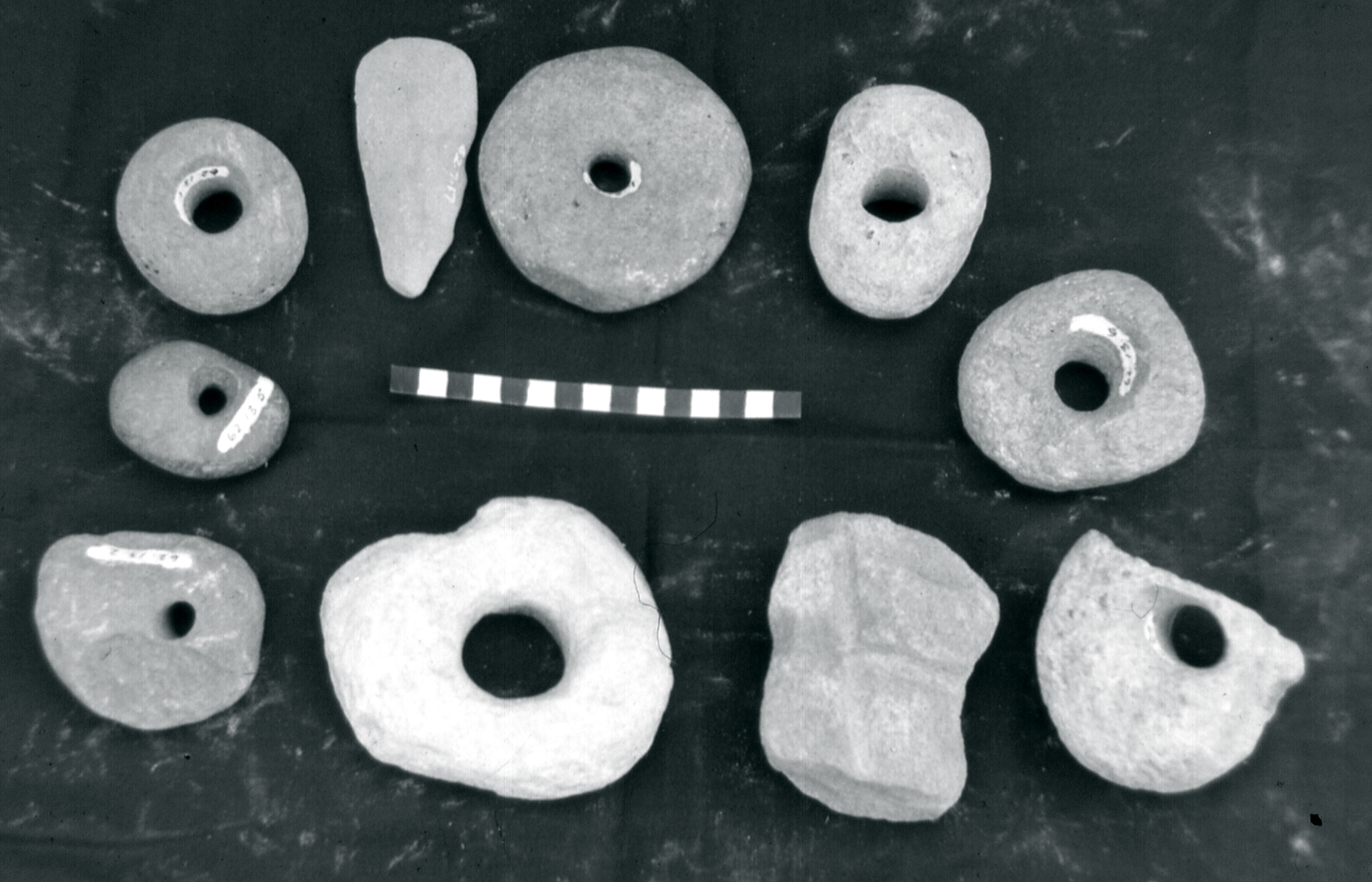 Photo taken in 1968 at the Sierra Leone Museum, Freetown. Scale in centimetres. From ethnographic analogy, these were probably used as digging stick weights, possibly in mining activities. Short discussions of bored stones in West Africa can be found in the following: R. Schnell, PLANTES ALIMENTAIRES ET VIE AGRICOLE DE L'AFRIQUE NOIRE: Essai de phytogógraphie alimentaire, pp. 45-46. (Larose, Paris, 1957) There is even a photograph of them being used (opposite page 176). Oliver Davies, THE QUATERNARY IN THE COASTLANDS OF GUINEA (Glasgow, 1964), pp. 196 -199. Oliver Davies, WEST AFRICA BEFORE THE EUROPEANS (London, 1967), p. 203 John H. Atherton, "Speculations on Functions of Some Prehistoric Archaeological Materials from Sierra Leone," In B. K. Swartz, Jr. and Raymond A Dumett, editors, WEST AFRICAN CULTURAL DYNAMICS (The Hague, 1980), pp. 266 - 270)